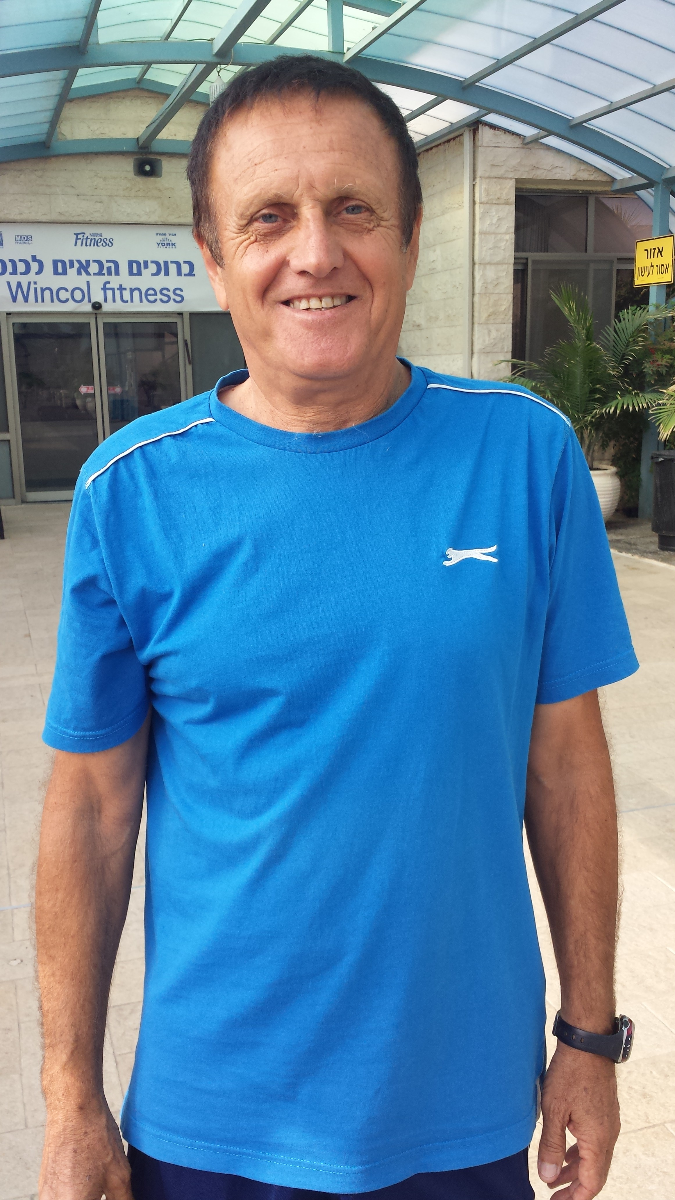 Itzik Ben Melech